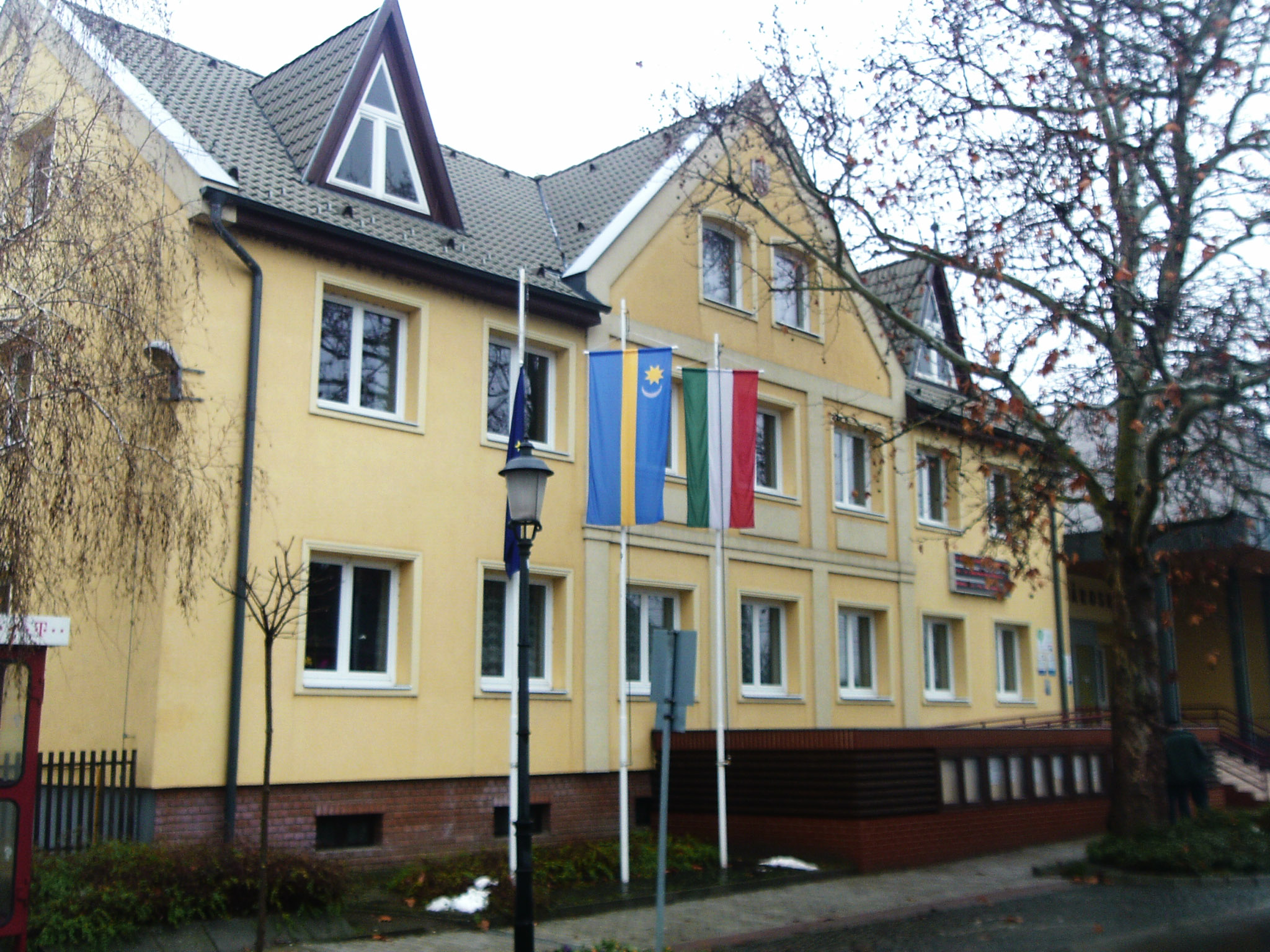 Solt, Hungary